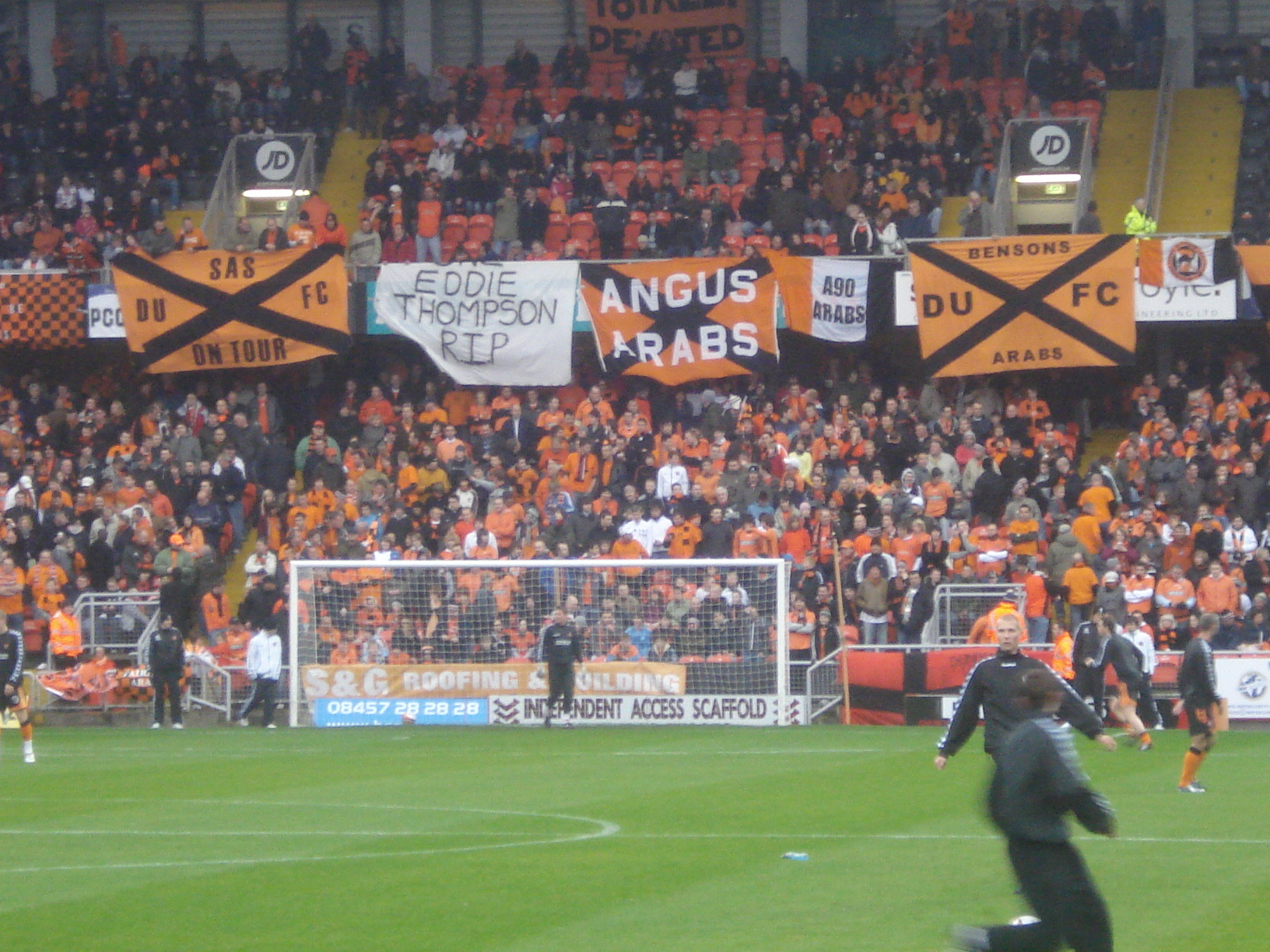 Dundee United fans pay tribute to late chairman Eddie Thompson before the SPL game at Tannadice versus St. Mirren.